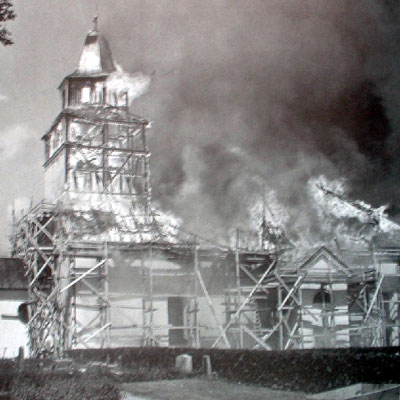 Vists church in Östergötland in Sverige on fire